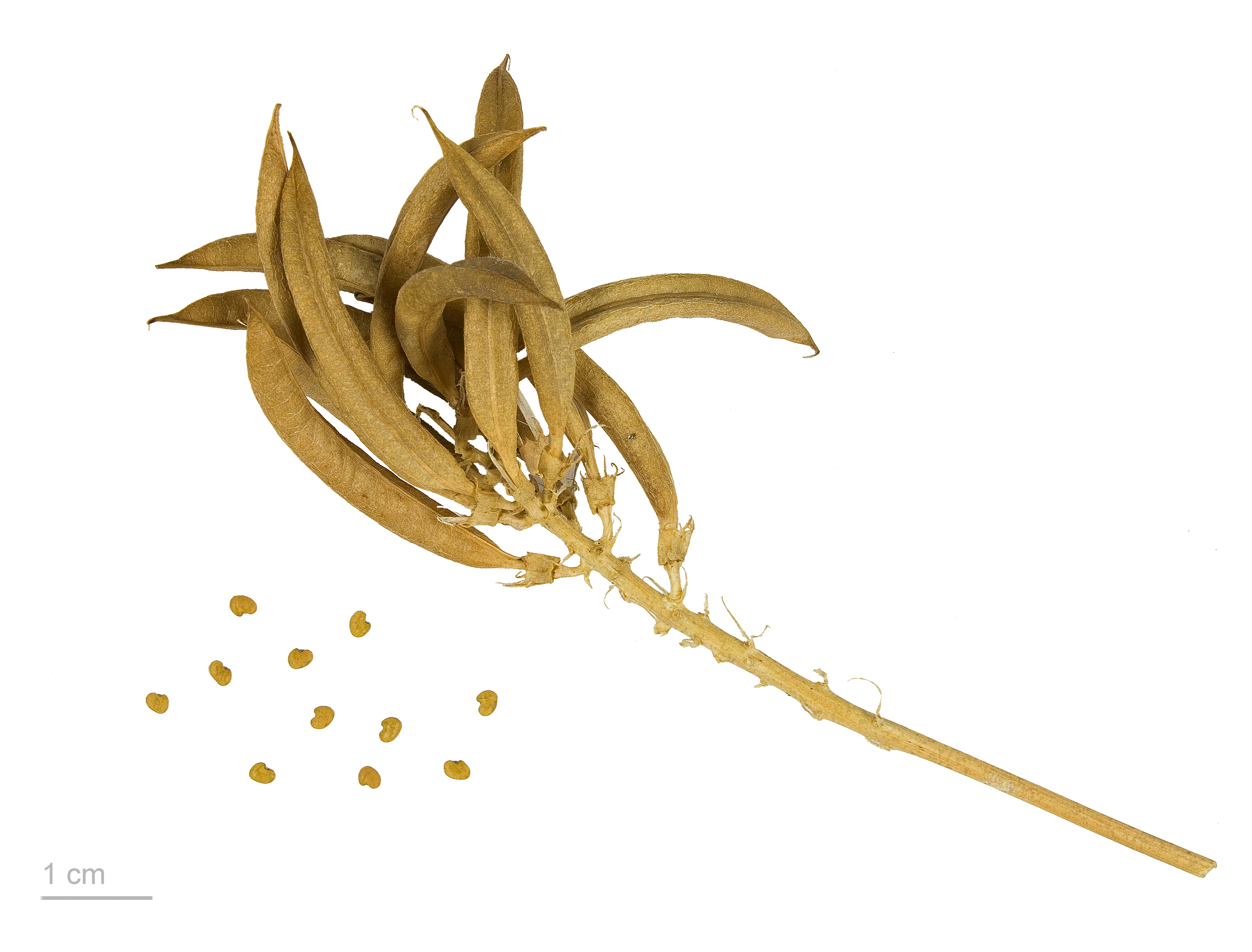 Liquorice milkvetch , fruits and seeds